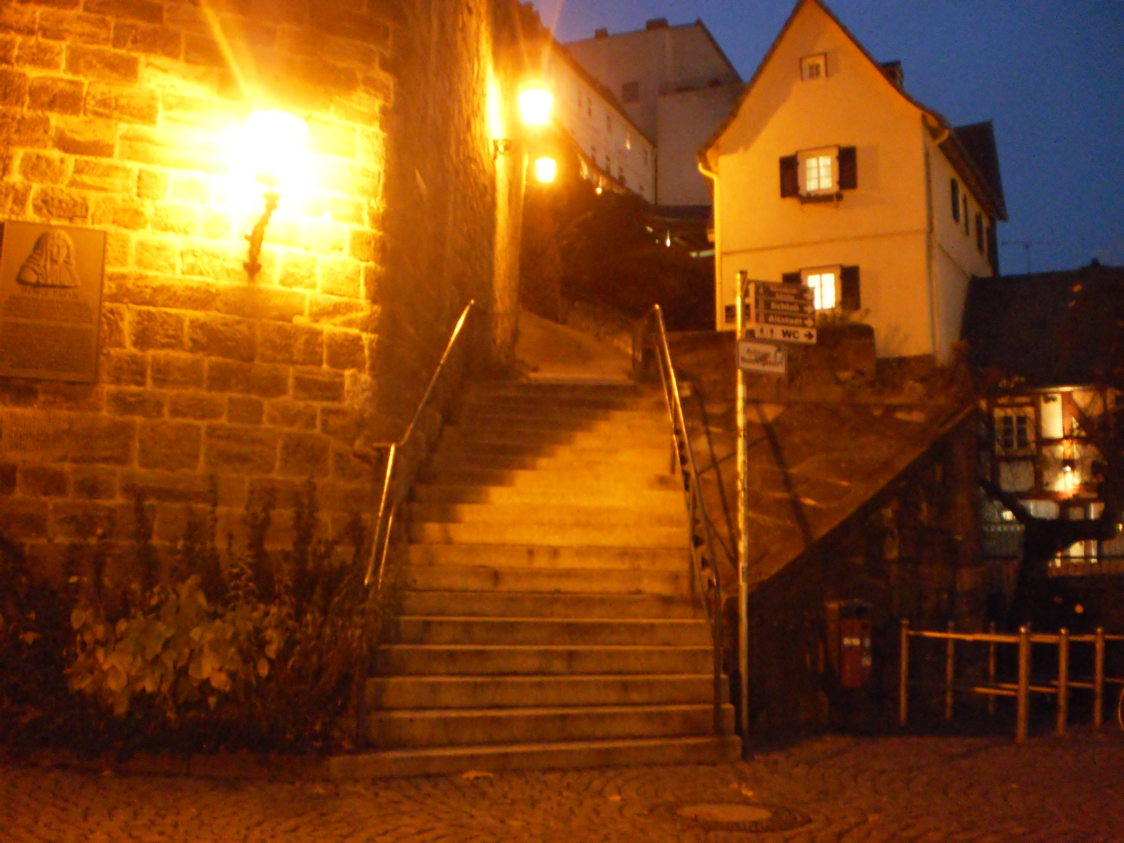 A stairs in Marburg (Mühltreppe).